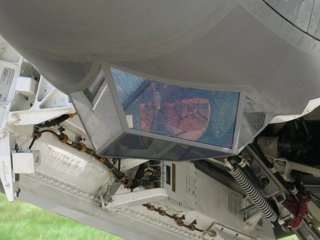 Electro-optical target sensor (EOTS) AN/AAQ-40 on the F-35A, 12-5054, ILA Berlin Air Show 2018